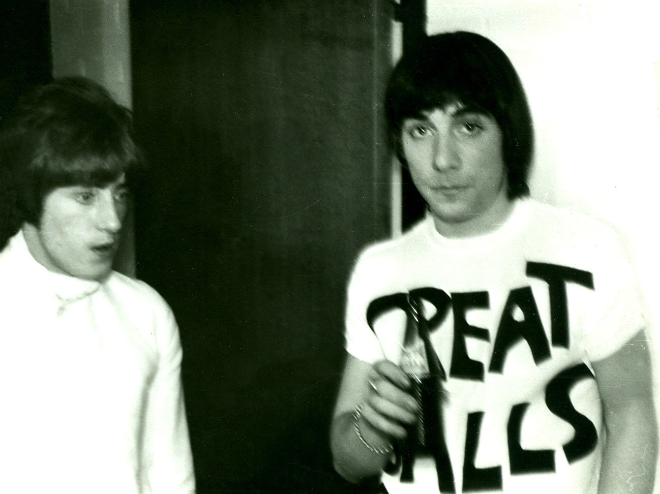 1967 - The Who - Roger Daltrey (side) with Keith Moon. The boys backstage before their gig in Ludwigshafen, Germany.